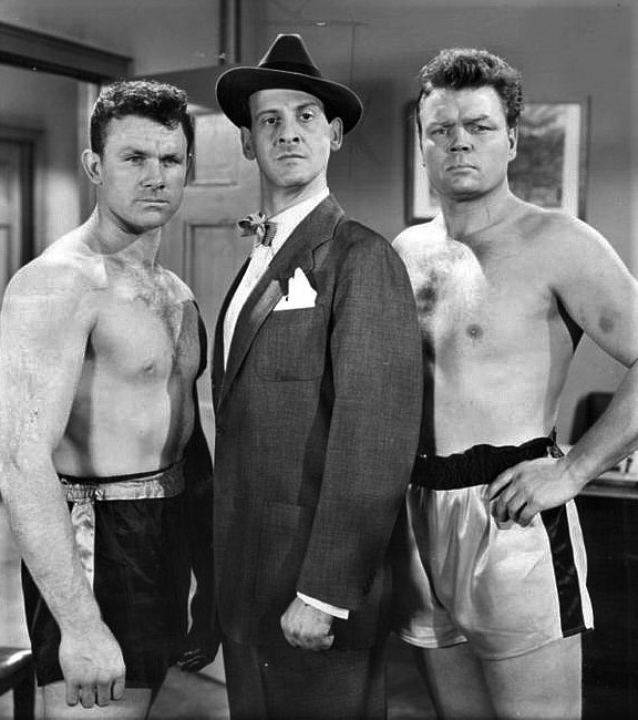 L. to R. : Chuck Hicks, Hans Conried & Hal Baylor in the TV series Schlitz Playhouse of Stars, episode The Brute Next Door - publicity still (cropped)